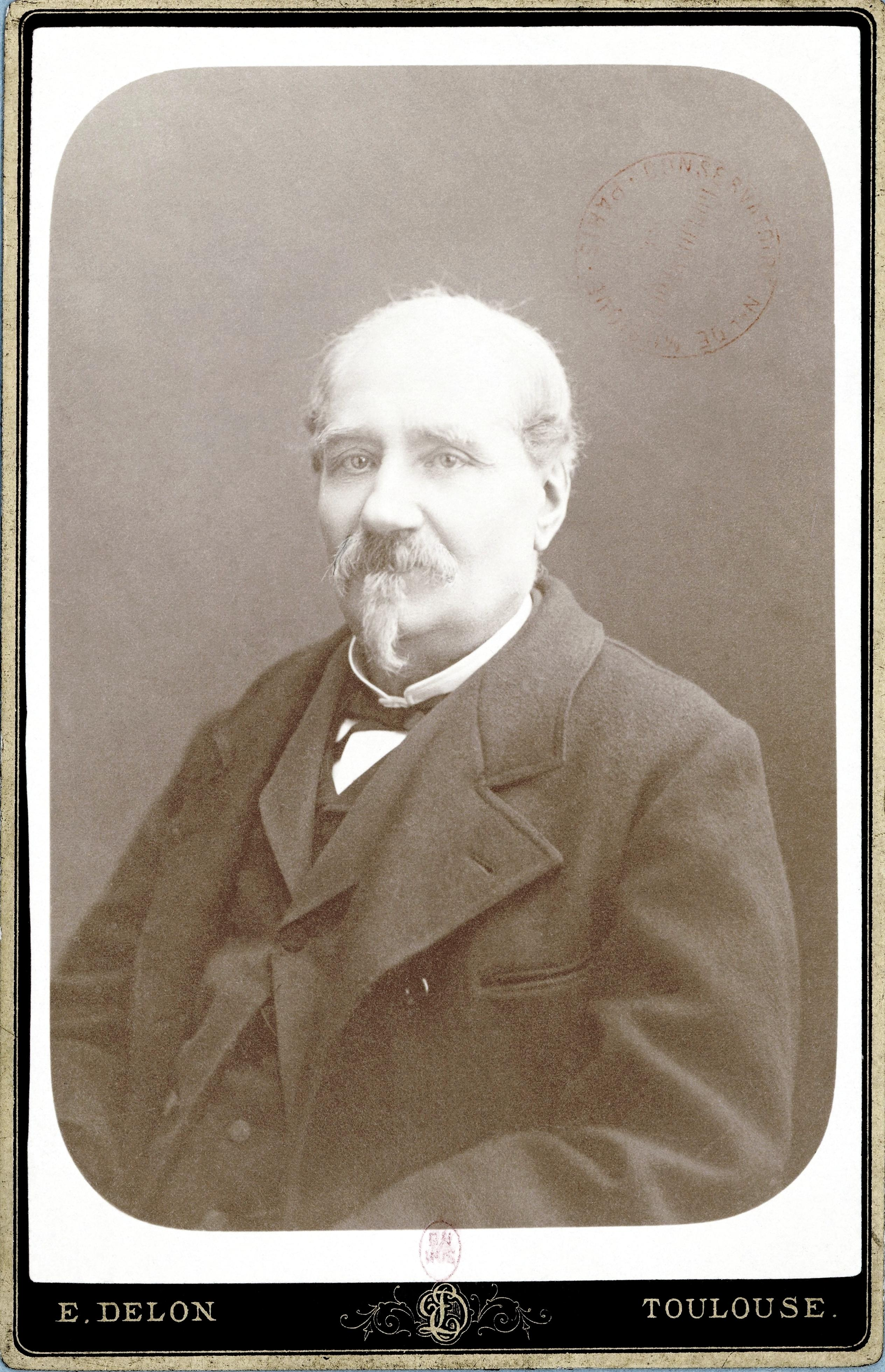 Louis-Pierre Deffès, (1819-1900), music composer from Toulouse (France), in 1890.